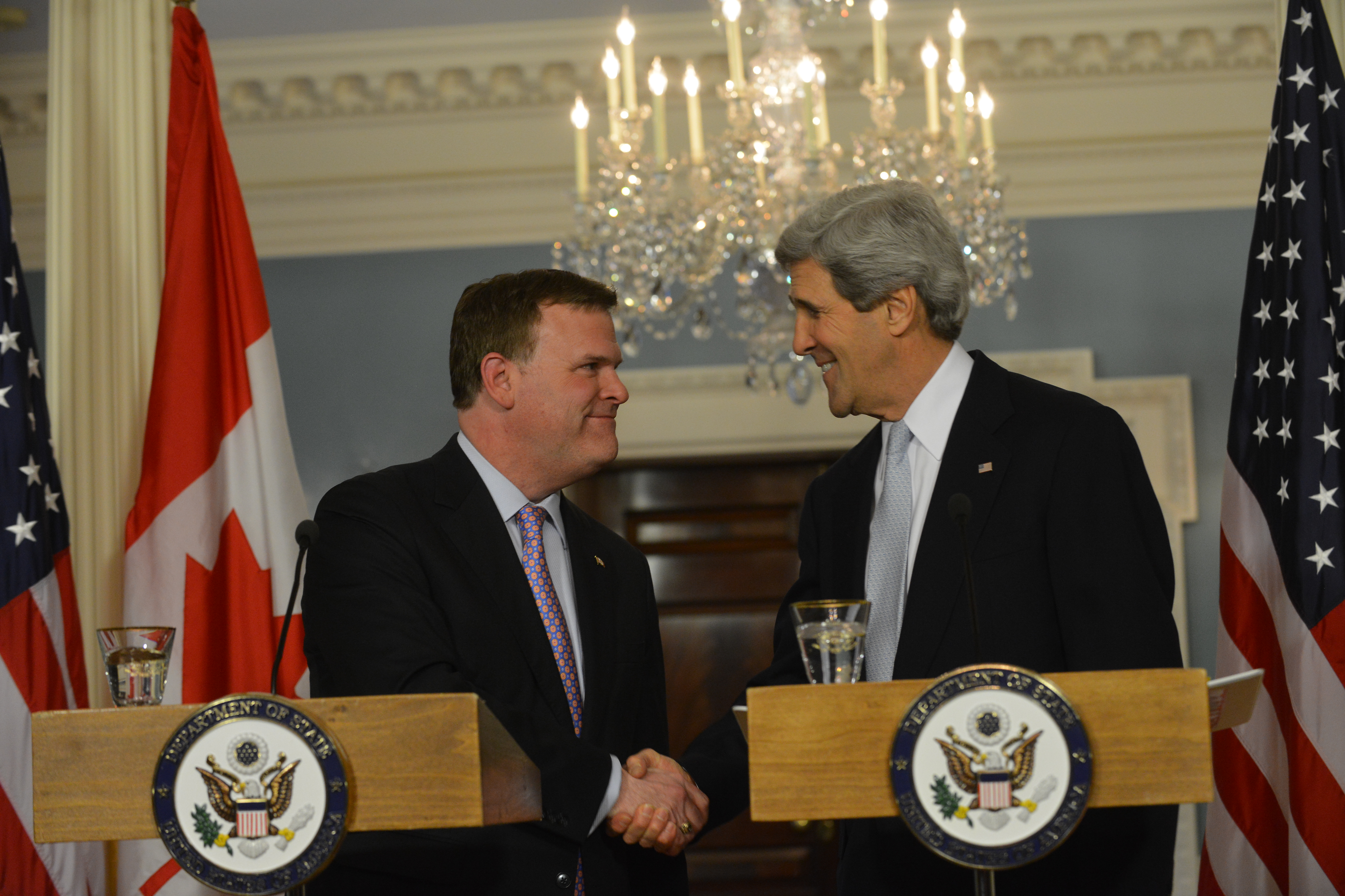 U.S. Secretary of State John Kerry shakes hands with Canadian Foreign Minister John Baird after their joint press conference at the U.S. Department of State in Washington, D.C., February 8, 2013. [State Department photo/ Public Domain]